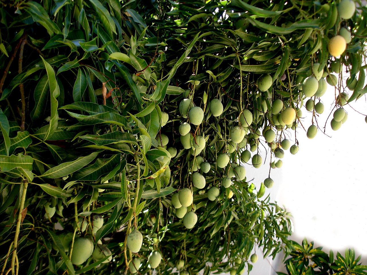 Mangifera indica at Conceição do Araguaia, PA